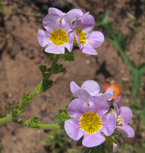 Phacelia brachyloba. Santa Monica Mountains National Recreation Area, California, USA. Taken at Circle X Ranch: Mishe Mokwa Trail. NPS photo, no copyright.